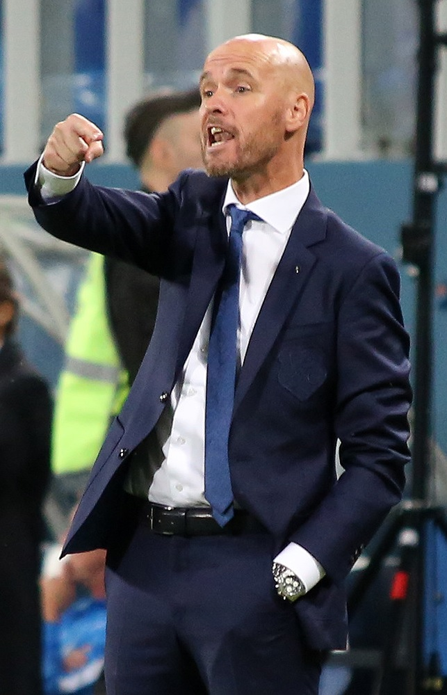 Erik ten Haag coaching FC Utrecht in a UEFA Europa League game against FC Zenit Saint Petersburg.